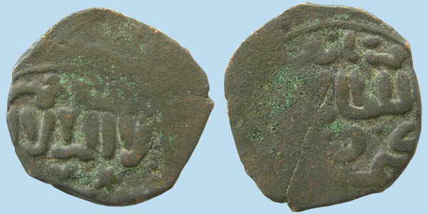 A copper coin (fels) from reign of Kaykhusraw II, of the Sedjuqs of Rum. Minted in Ankara,1237 AD (635 Islamic calendar). Obverse: "KELİME-İ TEVHİD ETRAFINDA HAMSE...". Reverse: "ES-SULTAN'ÜL ... KEYHÜSREV ... , DURİBE Bİ-ANKARA"